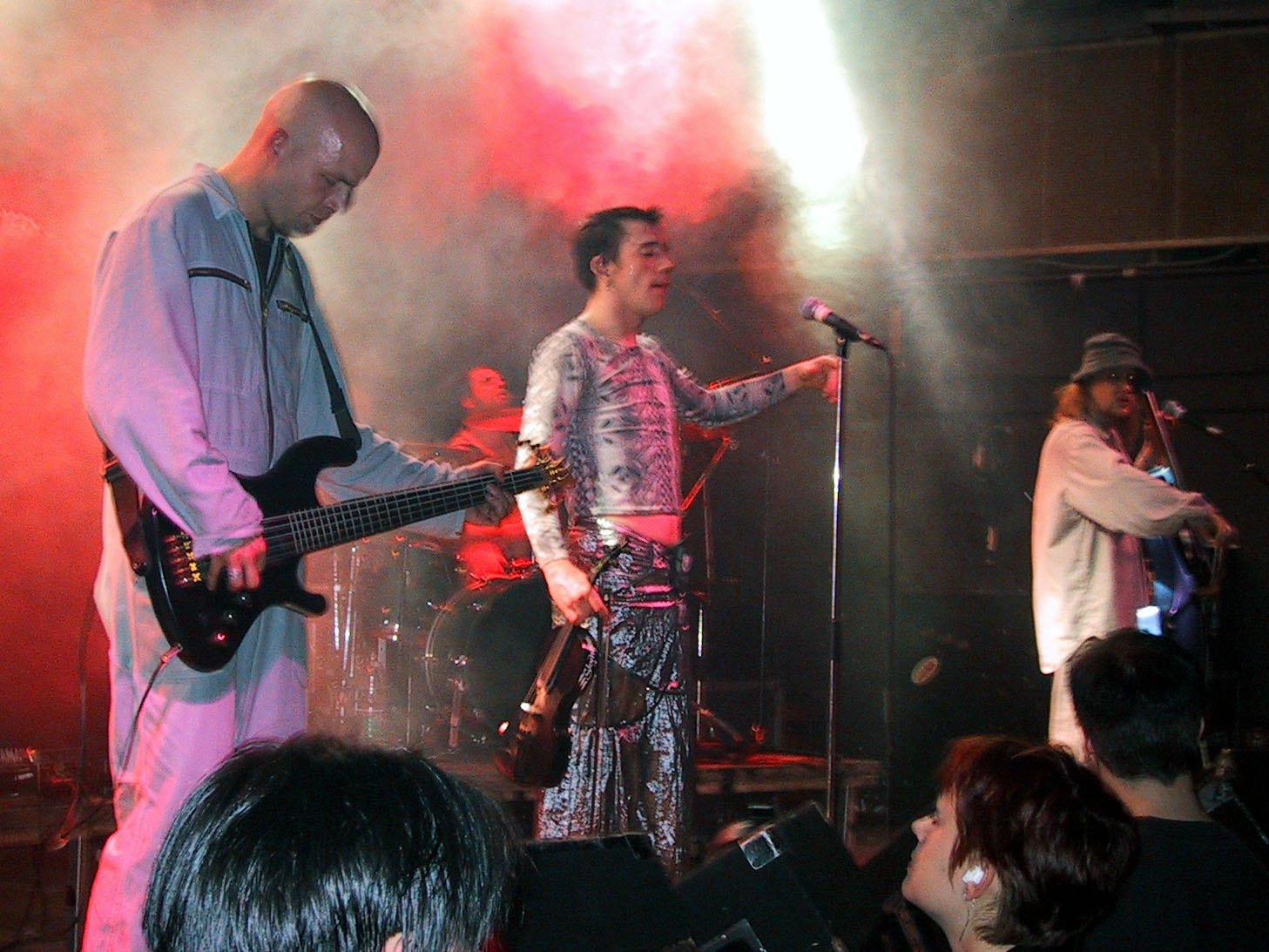 Ein Konzert der Band "Inchtabokatables" in der Zeche Carl A Concert with the Band "Inchtabokatables" Date: May 2001, Essen, Germany Author: Maschinenjunge Licence: see below.